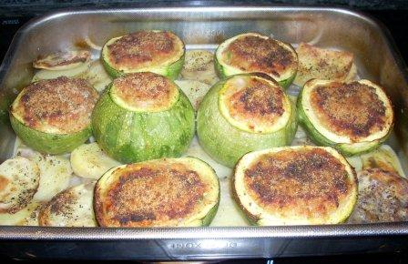 Round pale green zucchini or courgettes, stuffed with minced beef, cheese and parsley or with ricotta and grated sharp cheese and baked or braised.